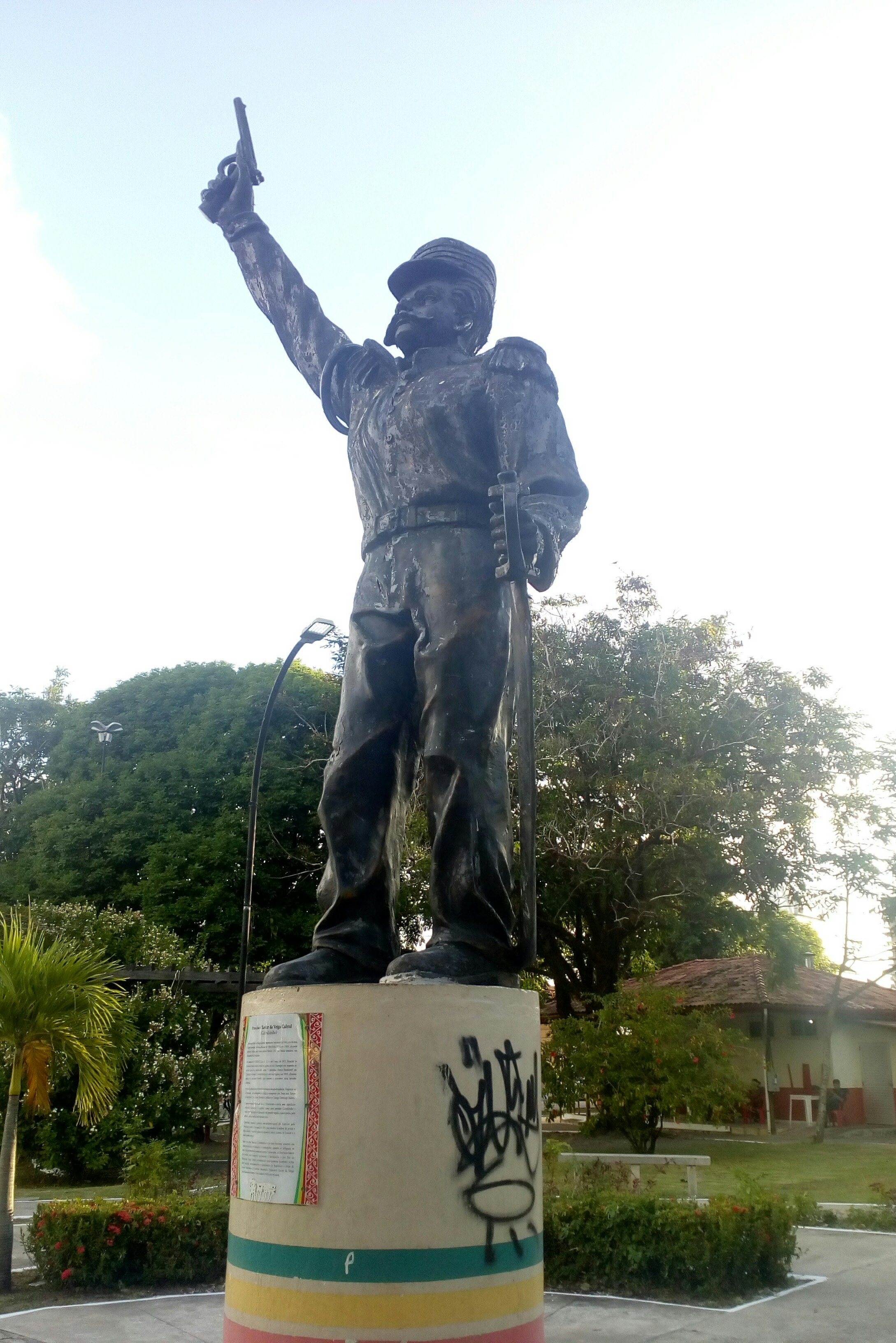 Monument of Cabralzinho, located in the Historic center of Macapá city.